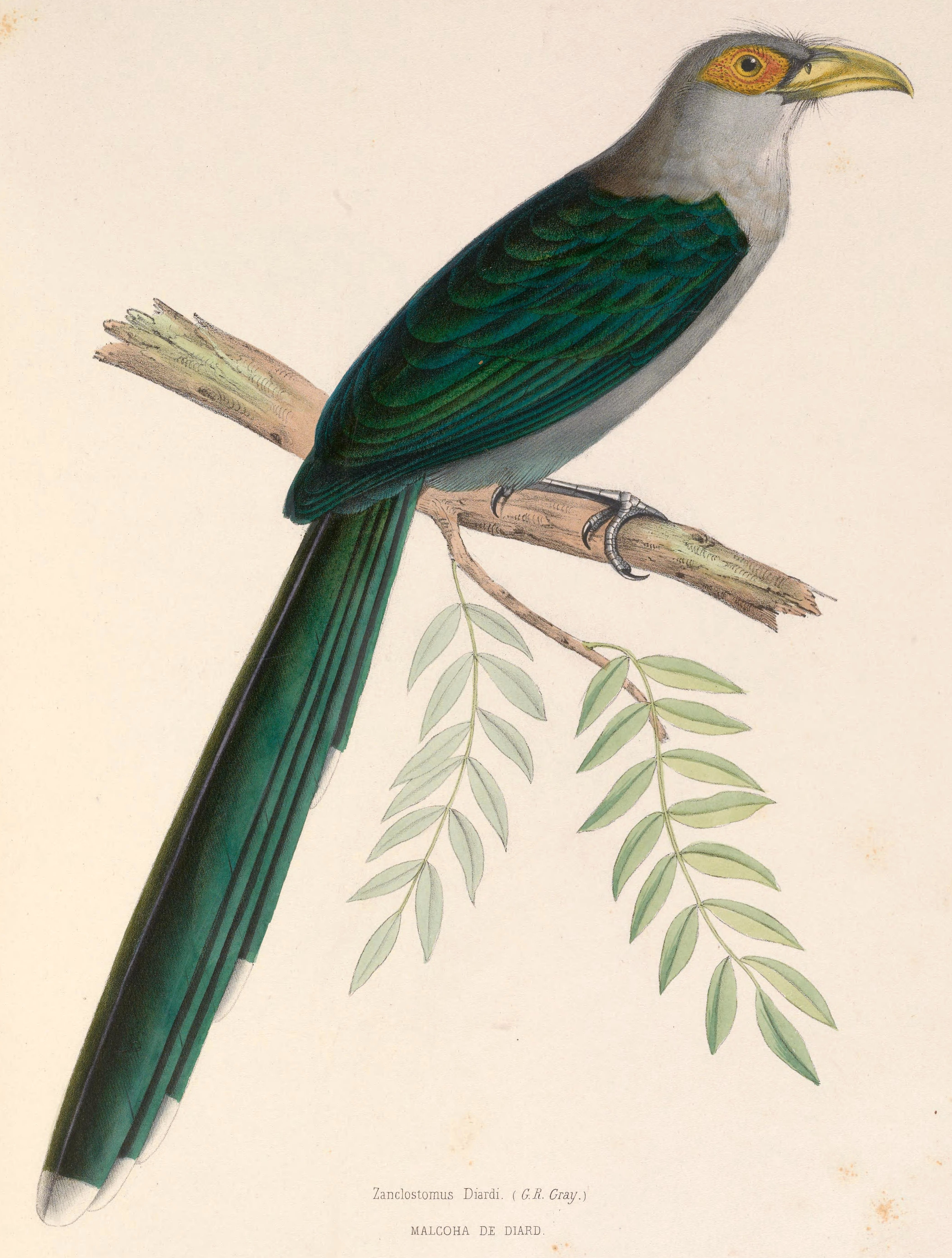 Zanclostomus diardi = Phaenicophaeus diardi (Black-bellied Malkoha)